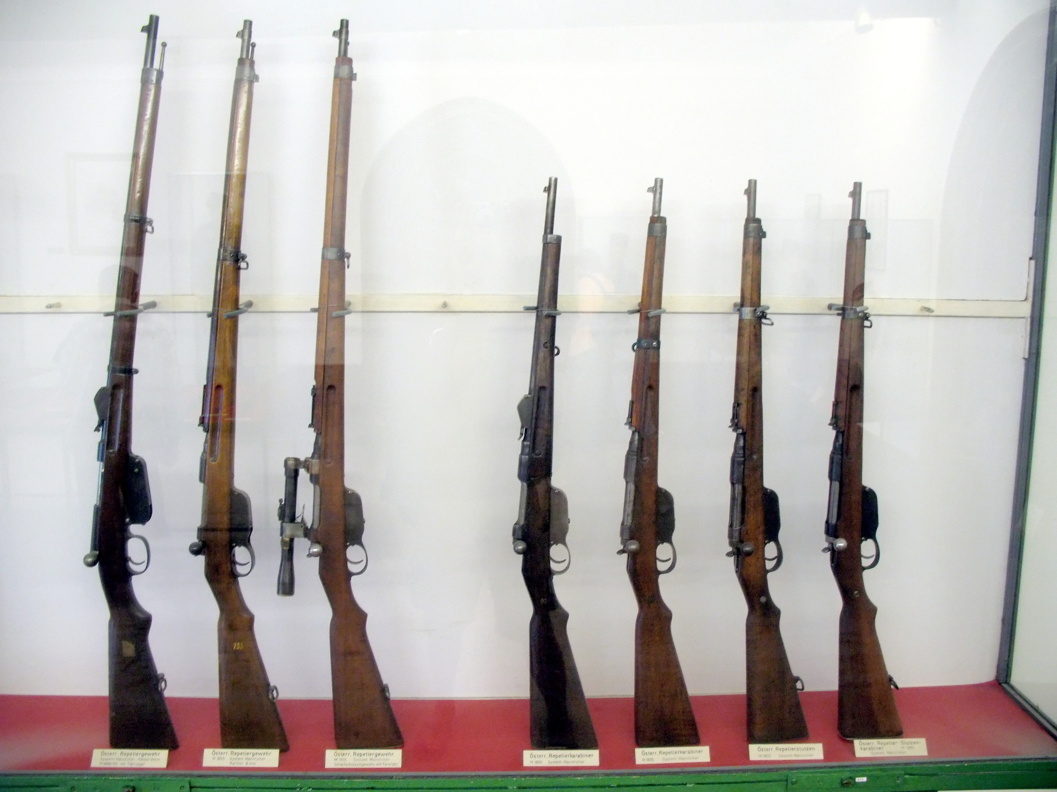 L-R: 3 Austrian repeating rifles, 2 Austrian repeating carbines, 1 Austrian repeating Stutzen, 1 Austrian repeating Stutzen-carbine; High Fortress, Salzburg, Austria